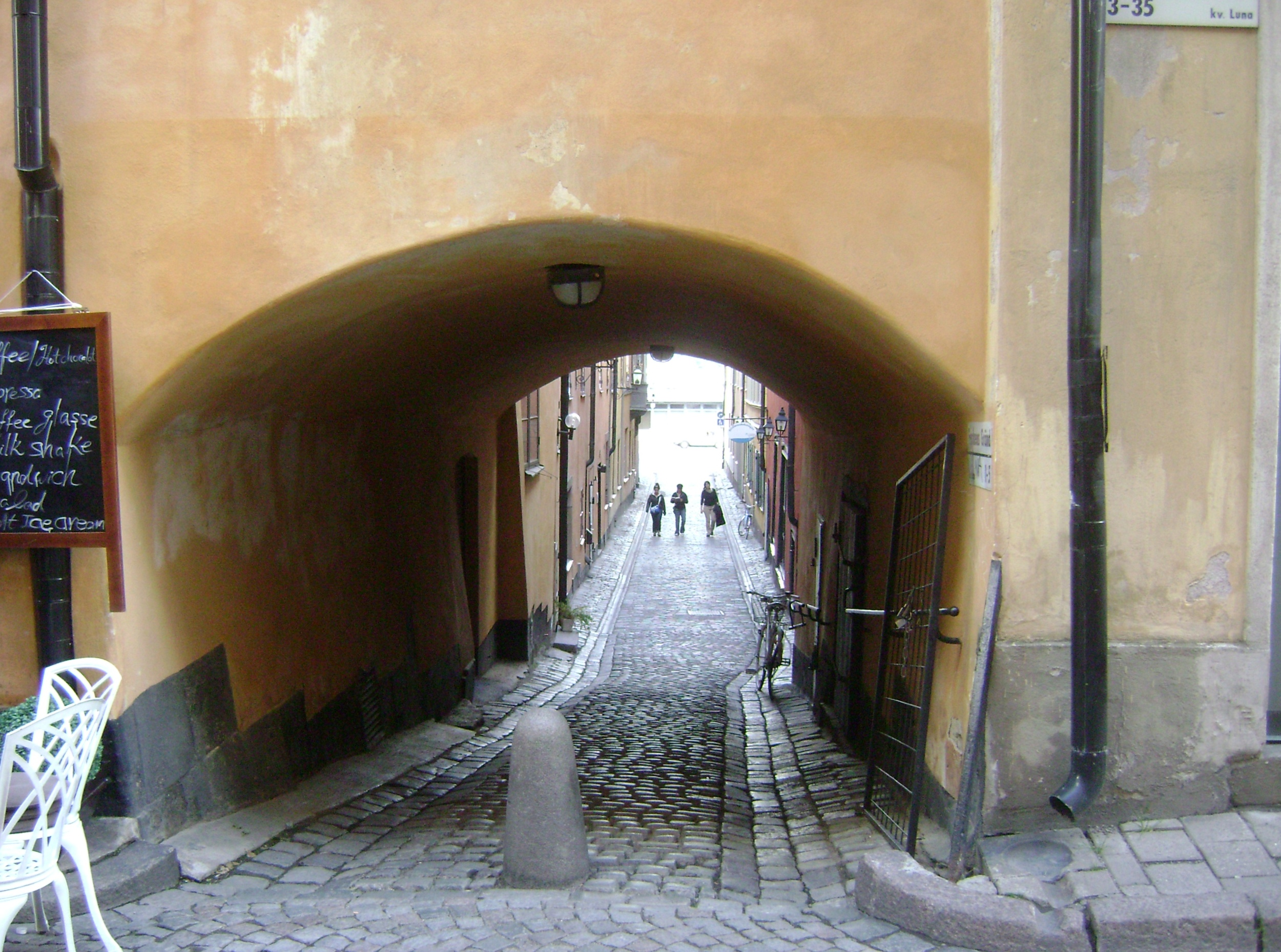 Sweden. Stockholm. Gamla stan